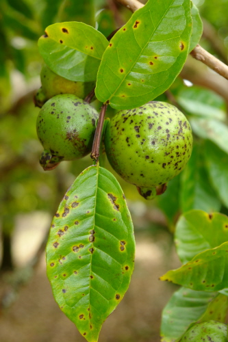 Cephaleuros parasiticus as a parasite of guava leaves and fruit in Hawaii, causing a leaf and fruit spot disease.